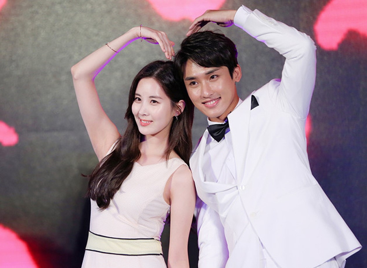 Cast of Canvas the Emperor press conference on June 29, 2016.